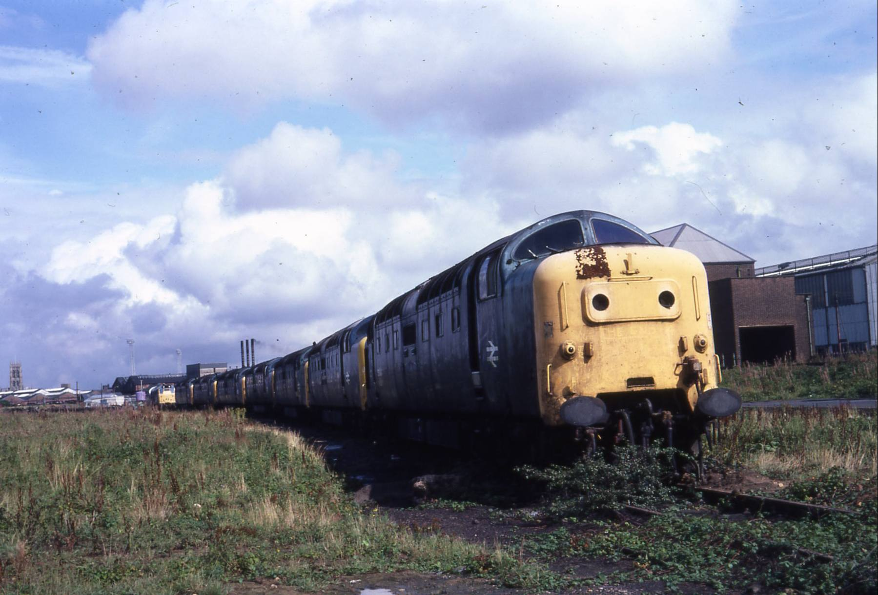 A line of seven withdrawn Deltics at Doncaster Works in August 1982. From front: 55004, 55022, 55016, 55005, 55017, 55013, 55011.